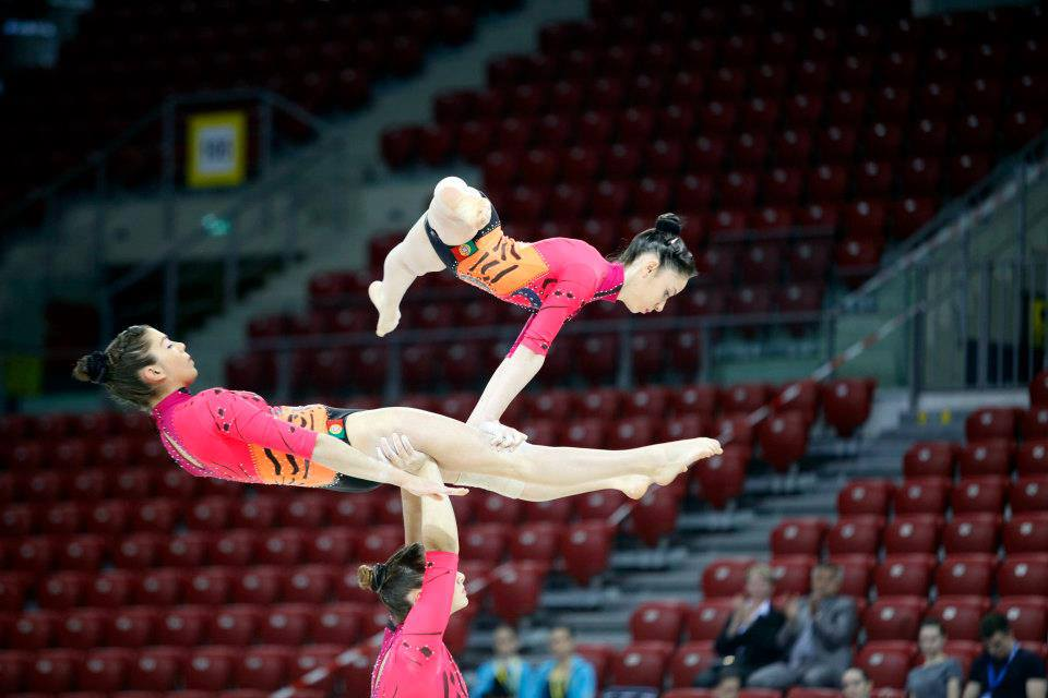 Women's Trio in planche position